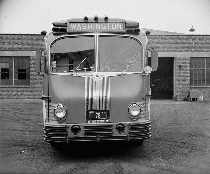 Front view of a Greyhound Lines Supercoach bus (Yellow Coach Model 719) from the mid/late 1930s. Maryland license plate, Washington destination. Library of Congress reproduction number LC-DIG-hec-24762. Black and White photograph from the Harris & Ewing Collection.